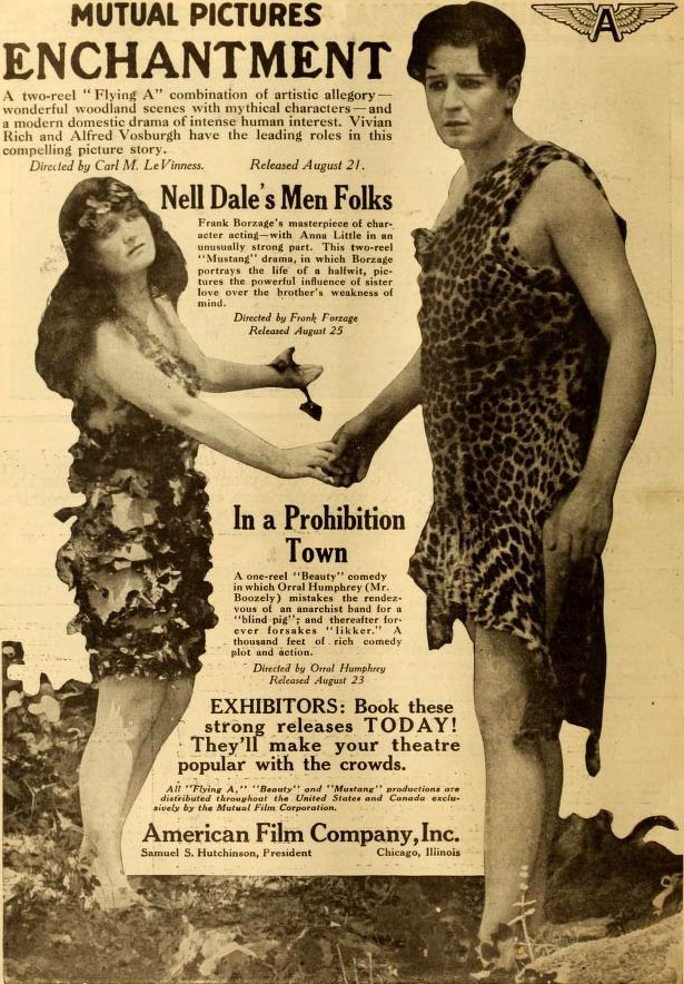 Advertisement in The Moving Picture World